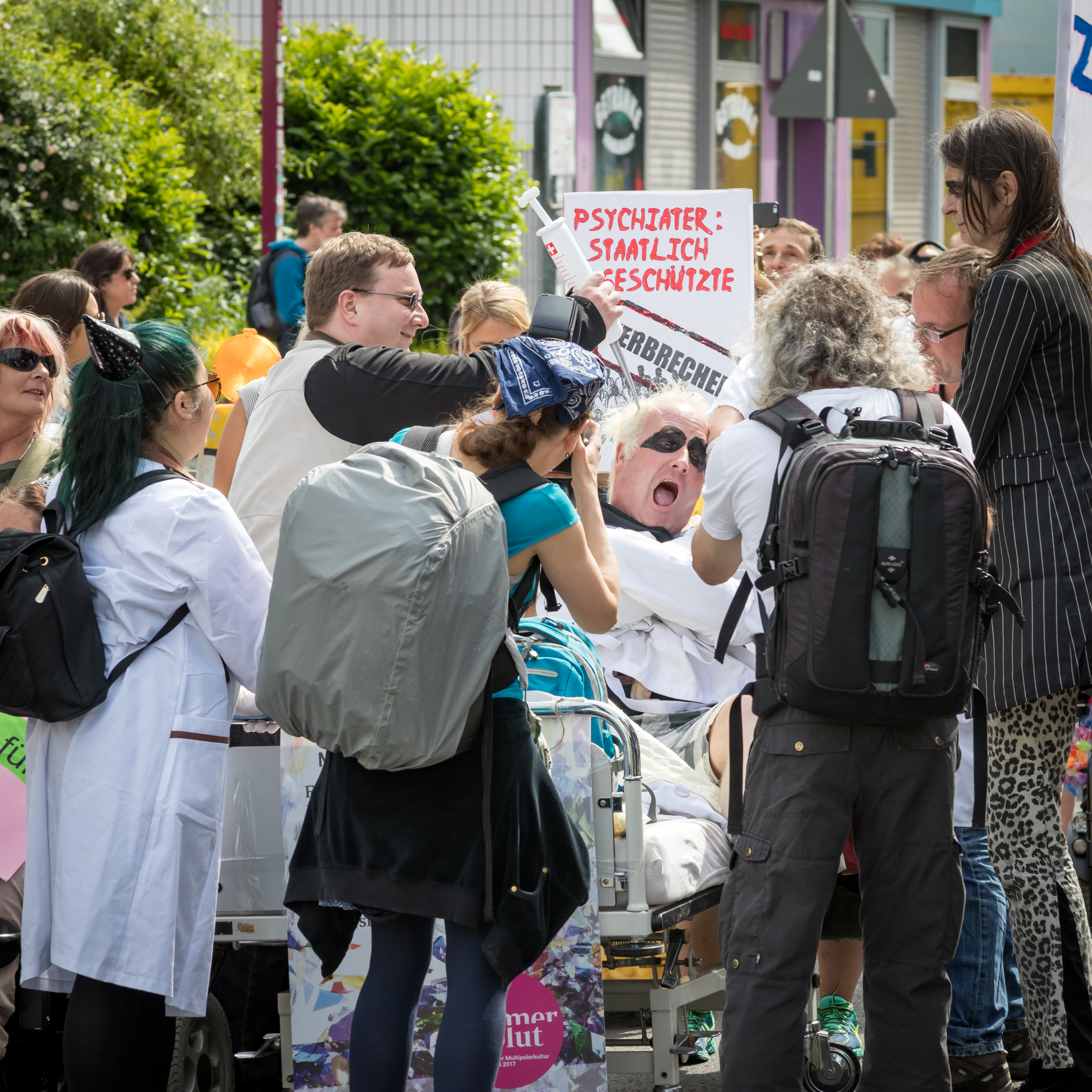 Mad PridecParade in Cologne, 2017: "Bed Push" with protest against forced treatment